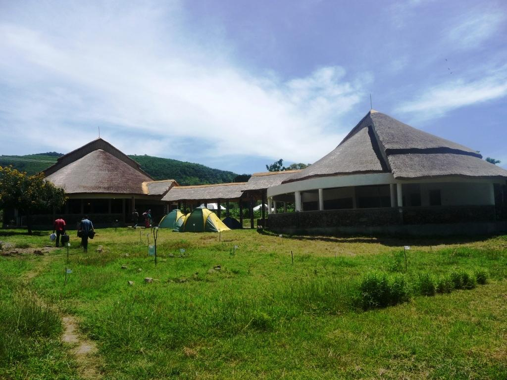 Photo of the Museum Gallery